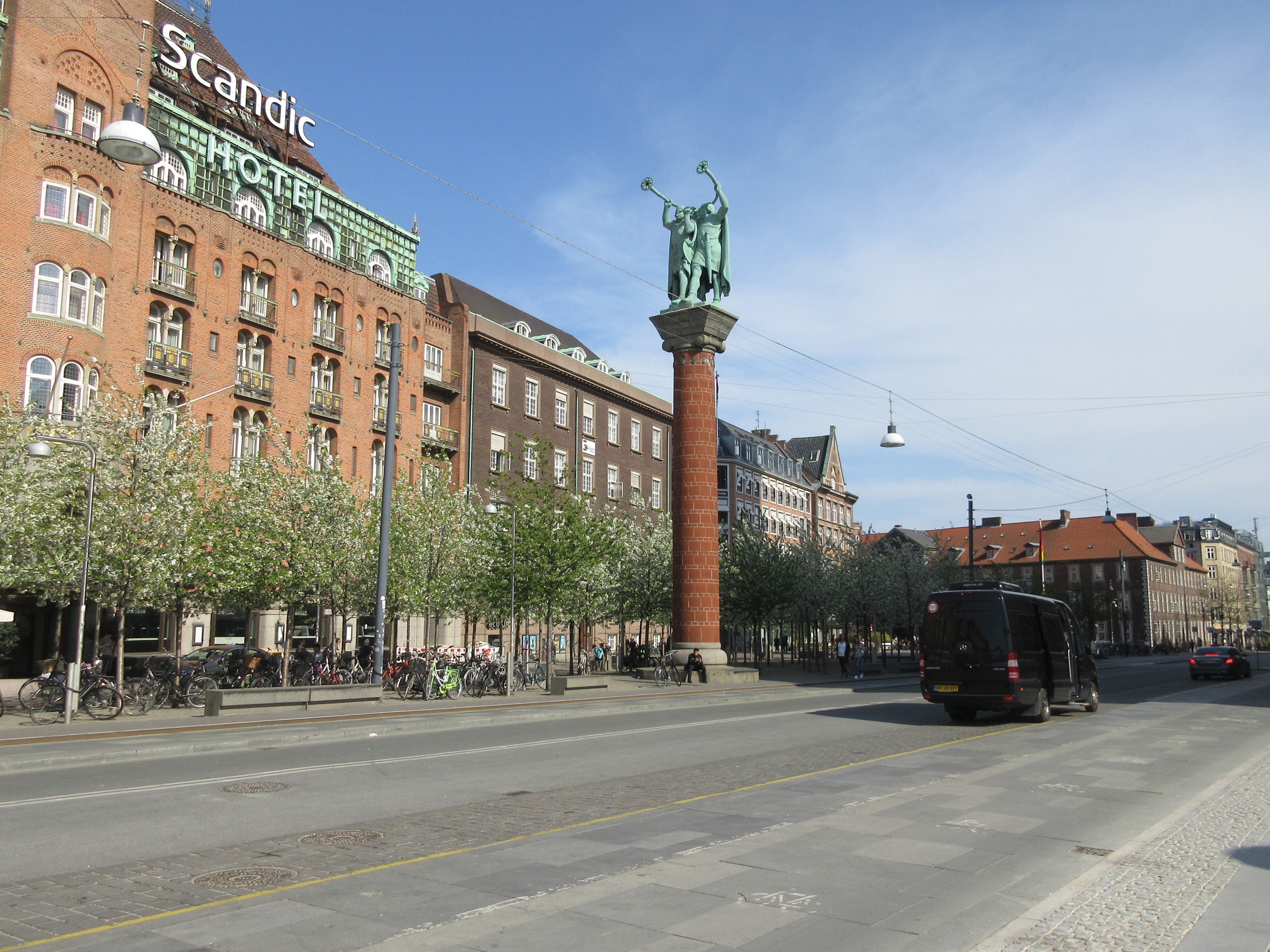 Regnbuepladsen with the heritage listed Palace Hotel to the left and the also listed Vartov building to the right in Copenhagen, Denmark